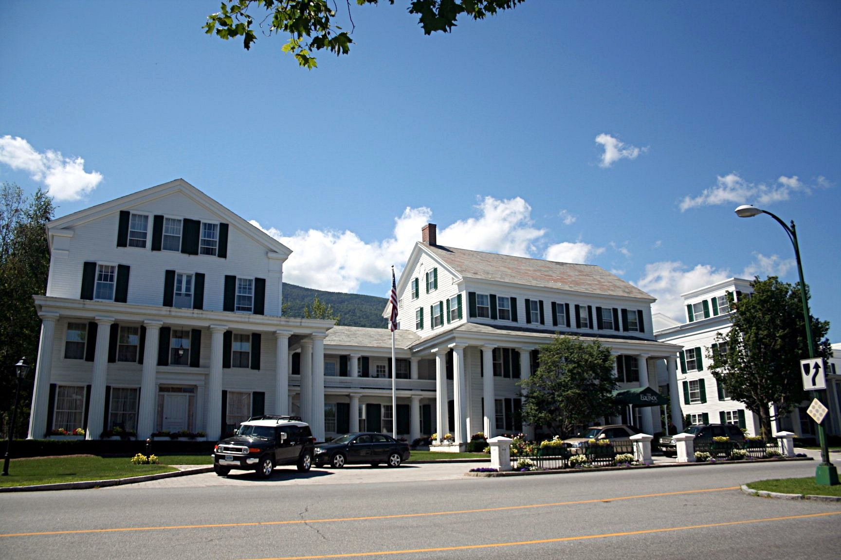 Photograph of the Equinox Hotel in Manchester Village, Vermont, United States of America